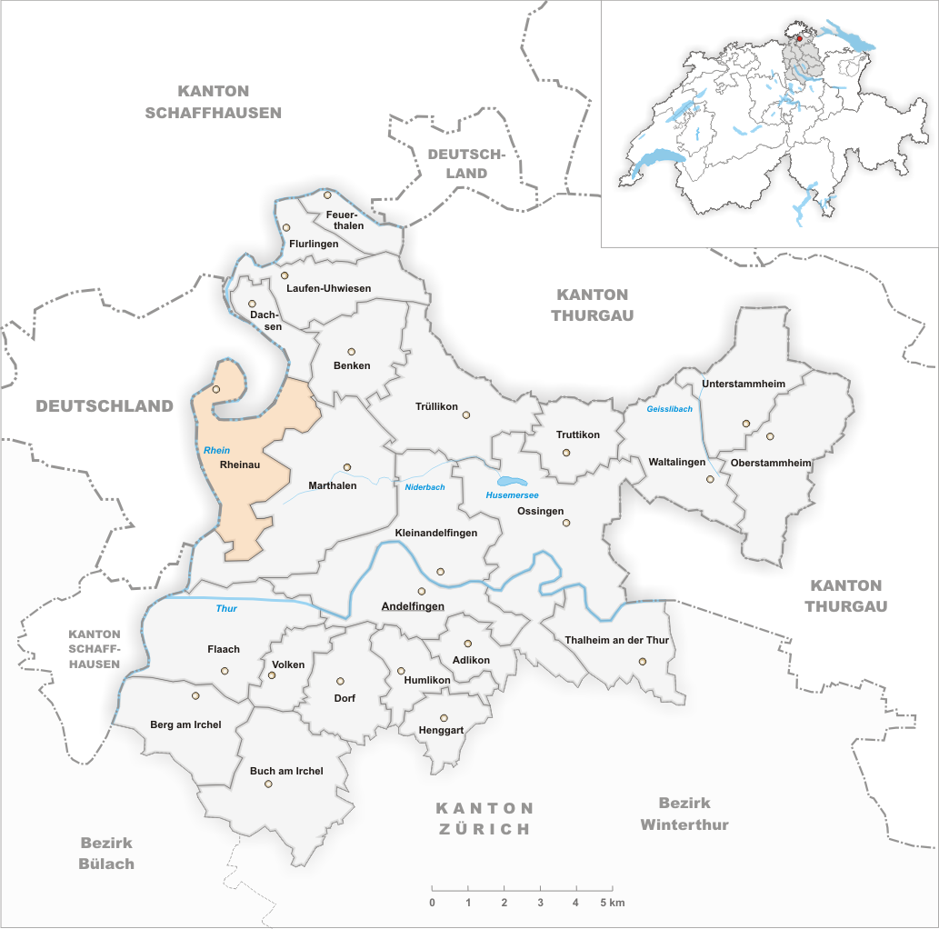 Municipality Rheinau